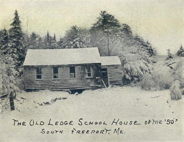 The Old Ledge Schoolhouse of the '50s, South Freeport, Maine